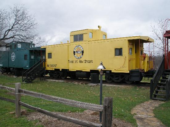 Yellow caboose at Antlers Hotel in Kingsland Texas, restored to a hotel suite.